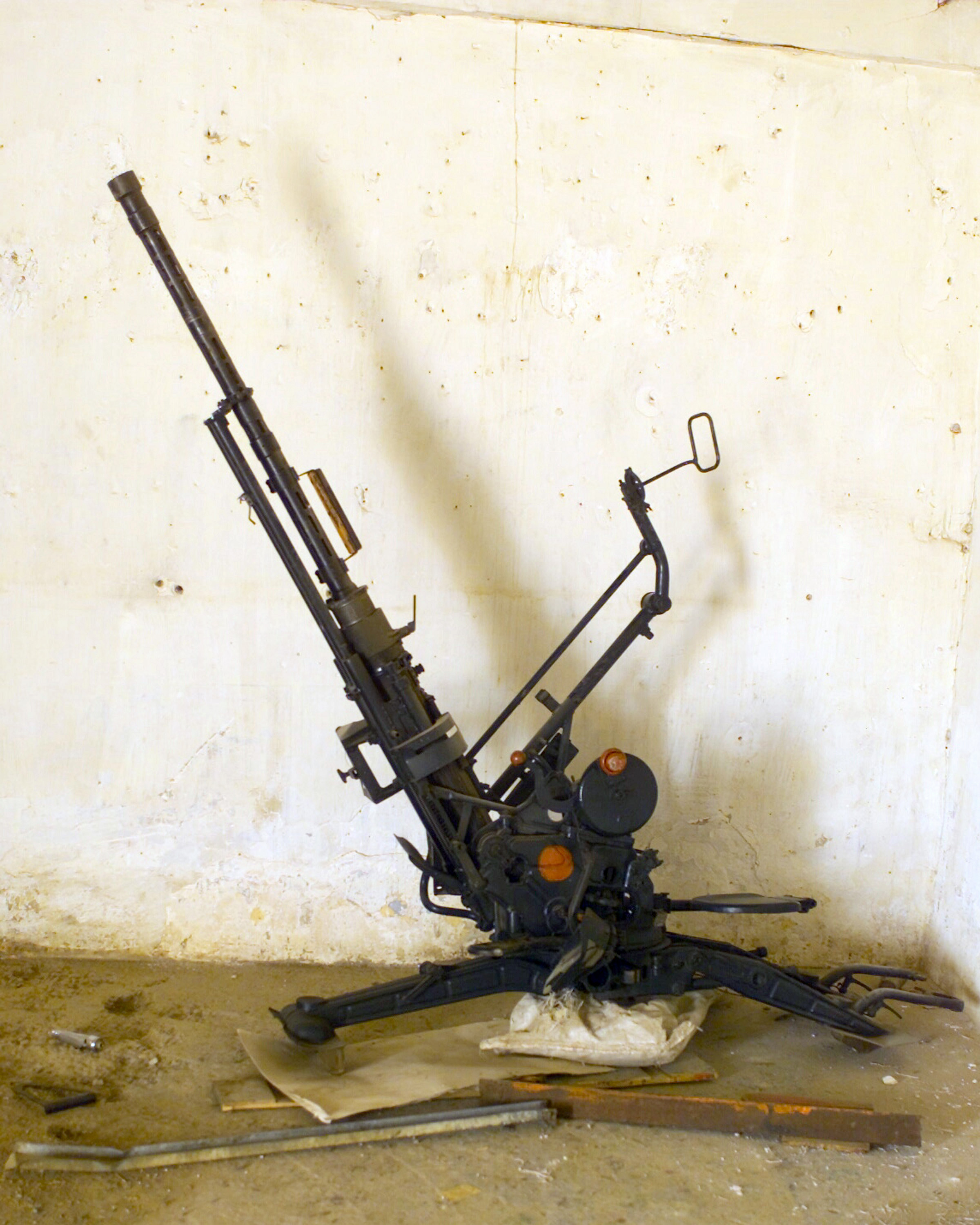 A captured Soviet designed ZGU-1 14.5mm heavy anti-aircraft machine gun (AAA) in a structure on a Republican Guard base in the vicinity of Daly airfield, Iraq, during Operation Iraqi Freedom.